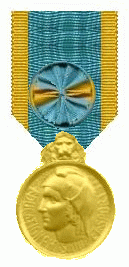 Médaille de la Jeunesse et des Sports en Or